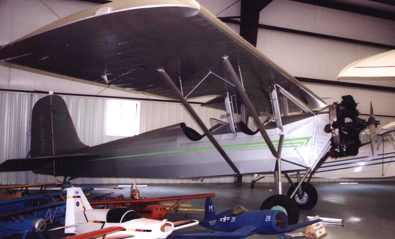 Timm M-150 Collegiate parasol-winged two-seat monoplane of 1928 at the Historic Aircraft Restoration Museum, Dauster Field, Creve Coeur, near St Louis, Missouri. Taken on 10 June 2006.